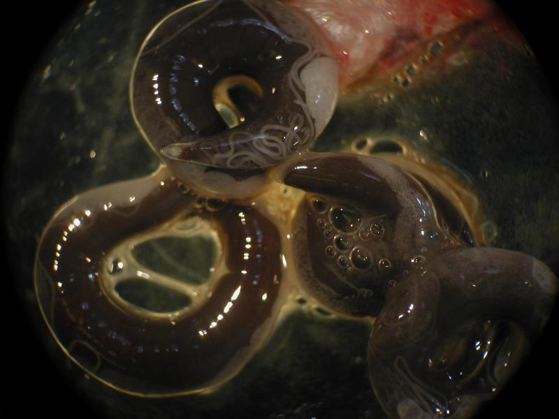 Four Anguillicoloides crassus synonym: Anguillicola crassus dissected from an american eel (Anguilla rostrata) elver